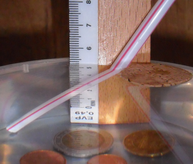 A vertical ruler and an inclined straw in a plastic box full of water seen under shallow angle. Due to refraction, the straw appears kinked and the scale compressed. The angle of incidence and the angle of refraction can be estimated by the aspect ratio of the slice of cork and the coins, respectively.